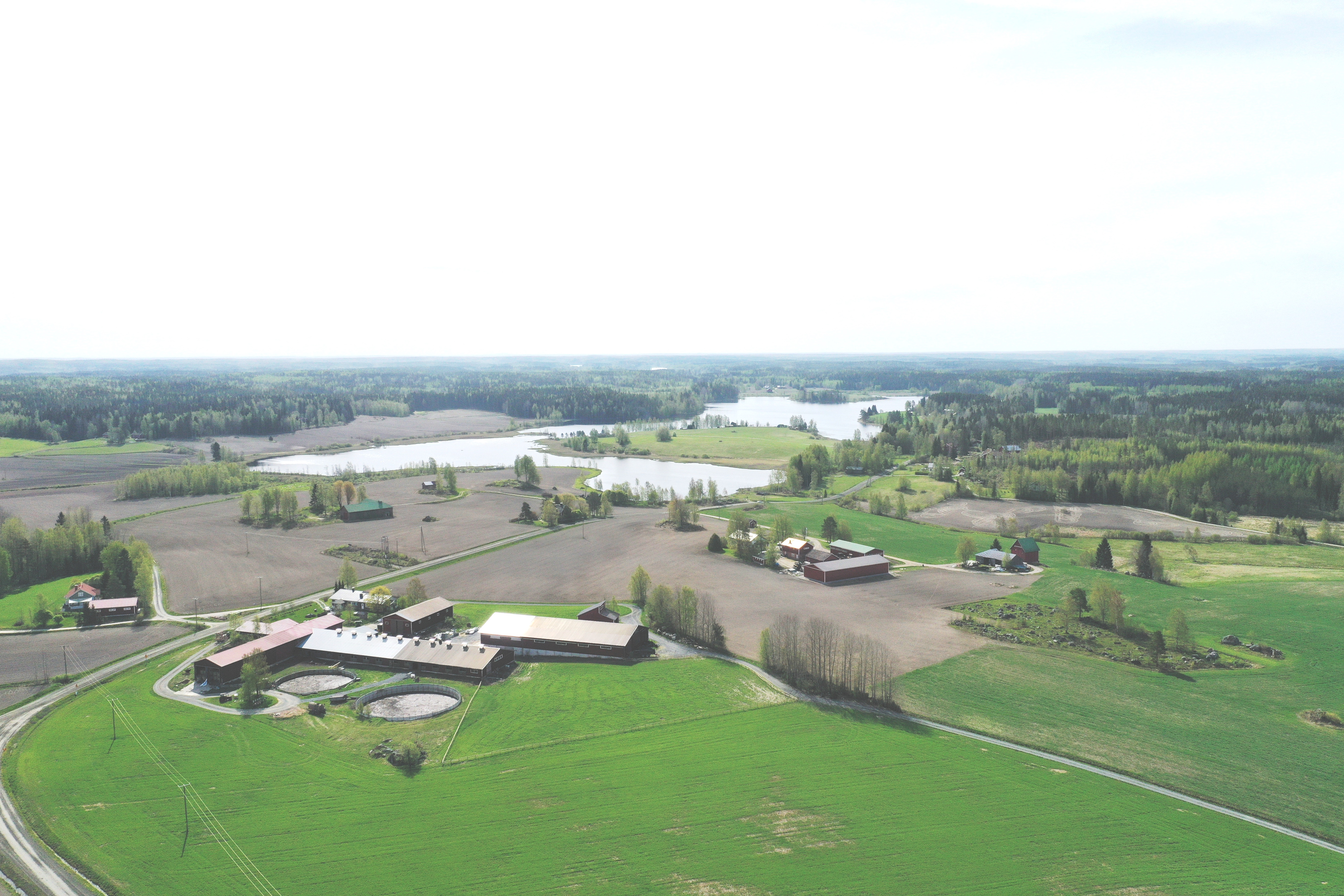 Sävi village in Suodenniemi, Finland